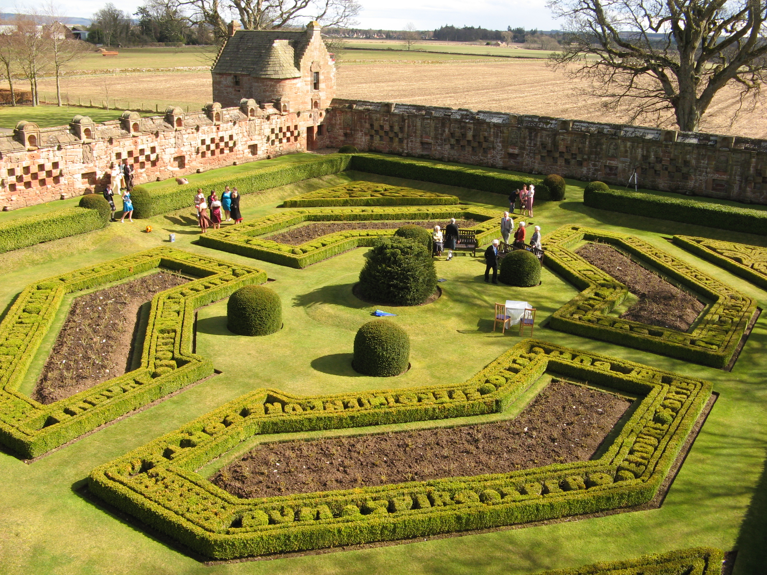 Edzell Castle, Angus, Scotland. The garden, viewed from the upper floor of the tower house.